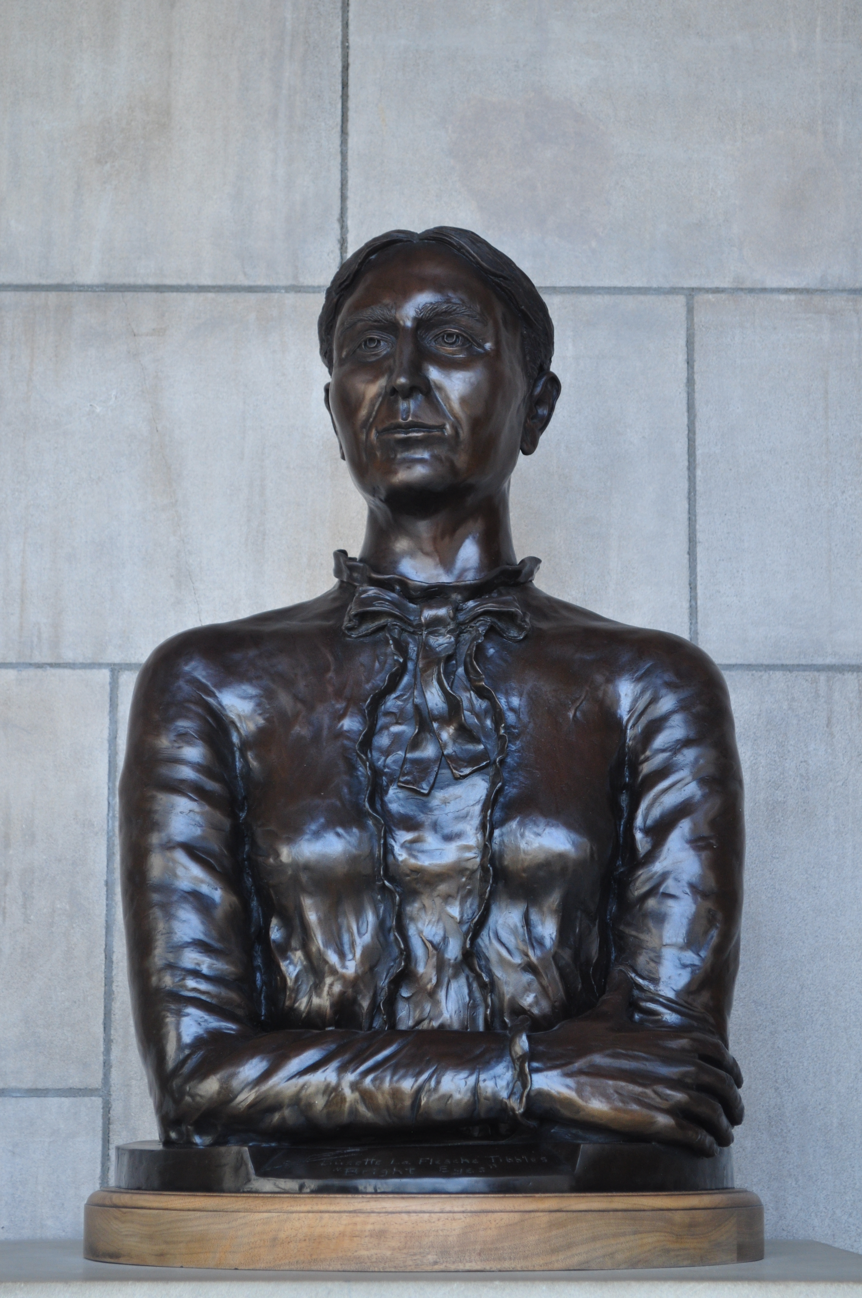 Susette LaFlesche Tibbles bust by Deborah S. Wagner-Ashton, Nebraska Hall of Fame